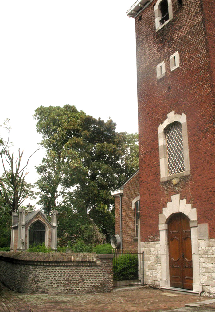 Church Saint-Martin in Hermalle-sous-Huy, Belgium. View of the tower (18th century) with door in Regency style. On the left : in the immured churchyard, neo-Gothic chapel of the family Potesta. Back, maple "uncrowned" by the storm of July 14, 2010.